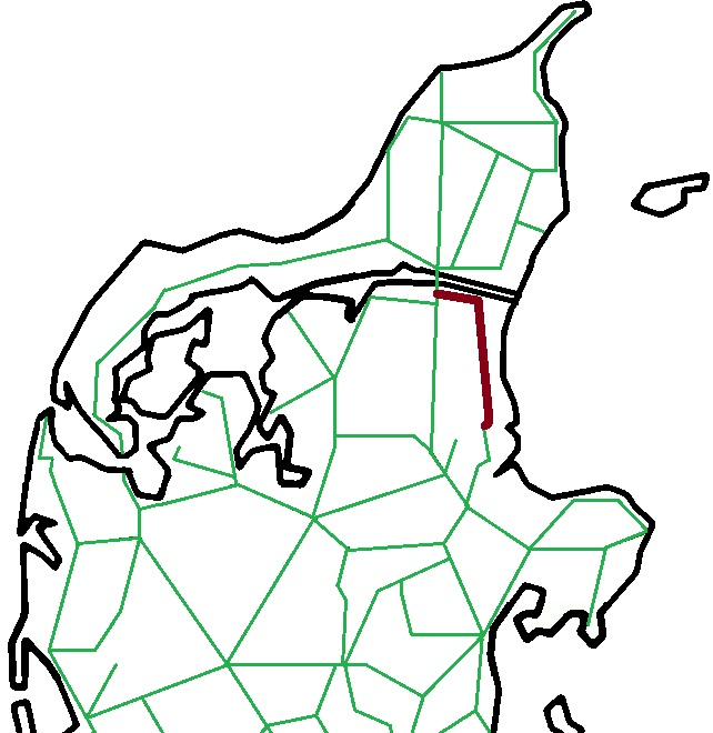 Map of railways in Northern Jutland in Denmark with the private railway Aalborg-Hadsund Jernbane in brown.